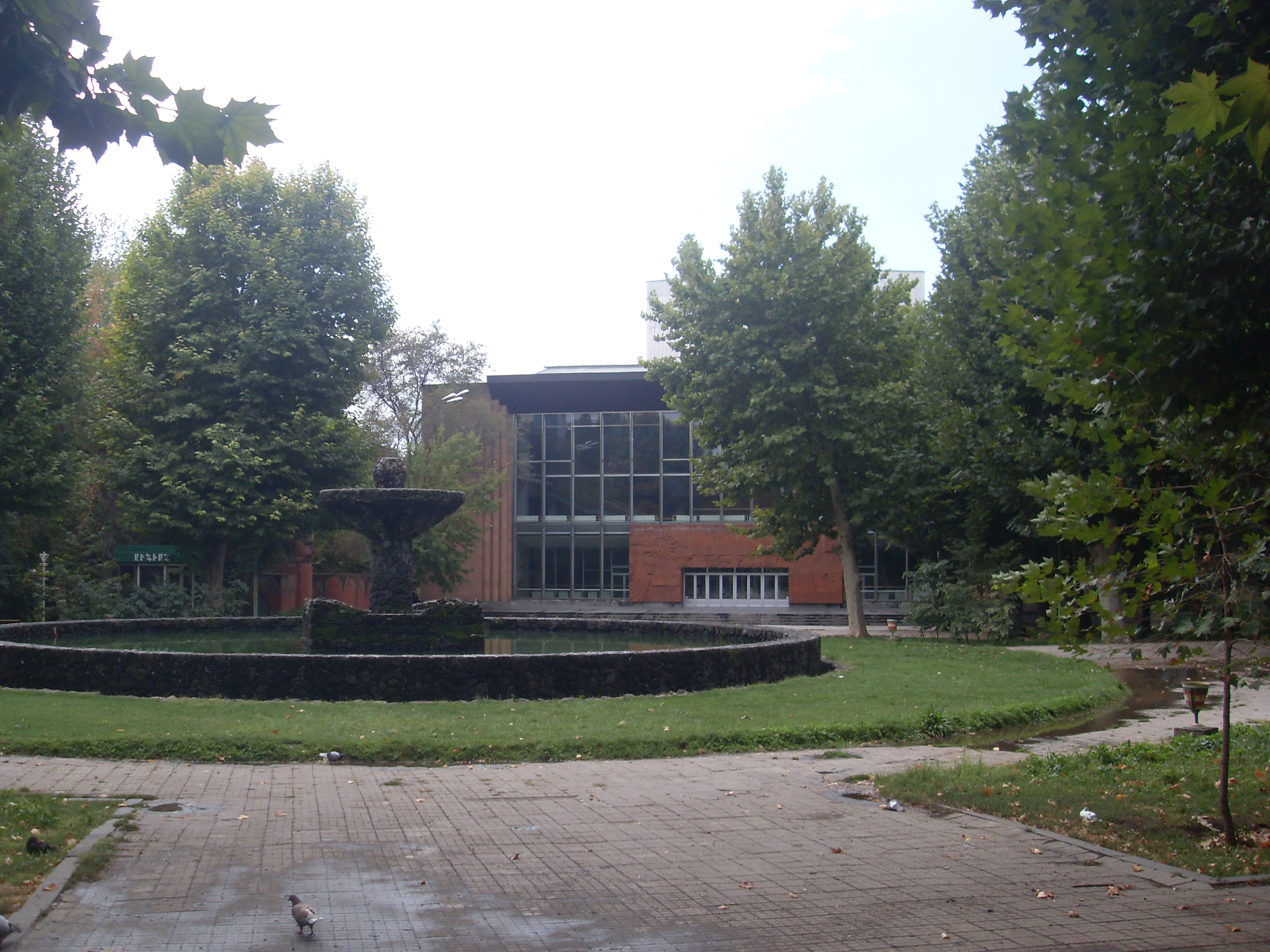 Sundukyan State Academic Theatre of Yerevan, 1966 6/78